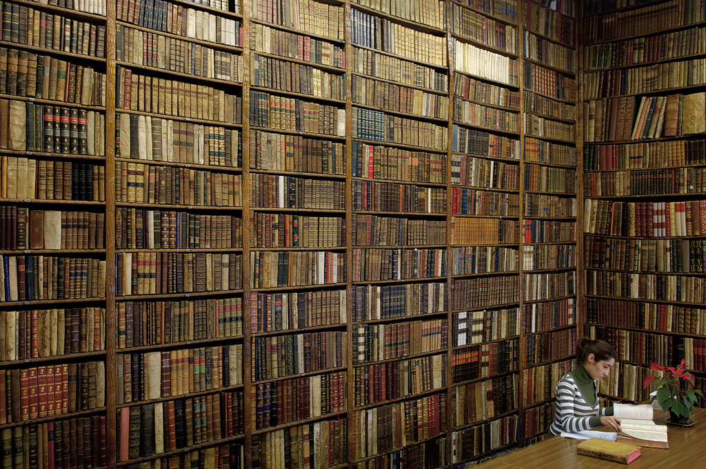 Bardón Book Store This photograph can be used for publications, including this copyright statement: “©PromoMadrid, author Max Alexander”. Esta fotografía puede usarse en publicaciones, incluyendo la declaración “©PromoMadrid, autor Max Alexander”.